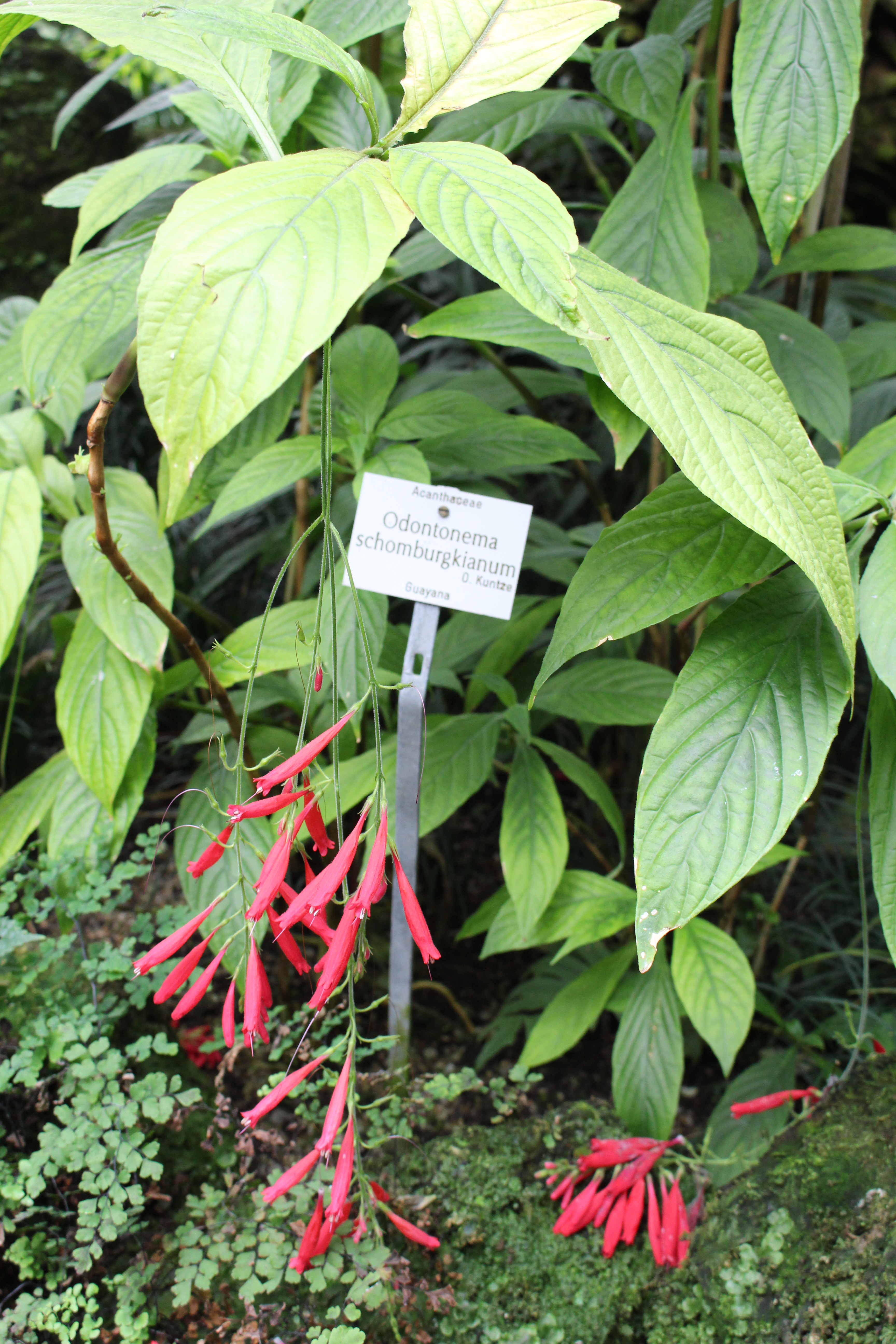 Odontonema schomburgkianum in the 'Botanischer Garten München-Nymphenburg'